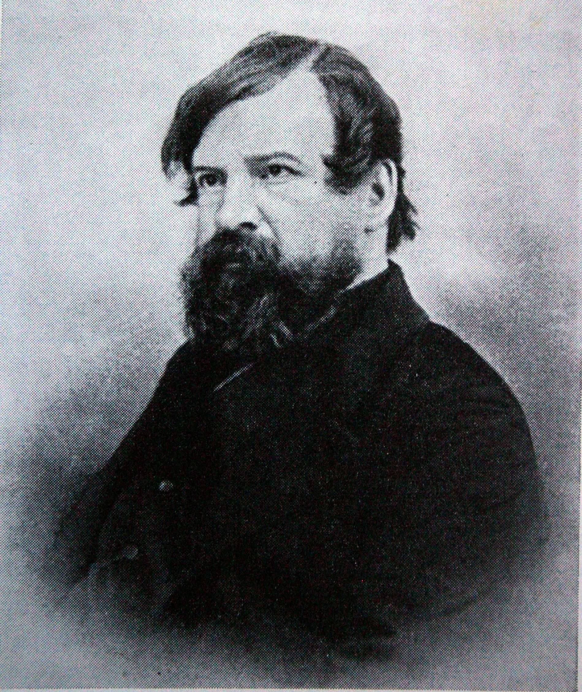 Portrait of Thomas William Bowler (1812-1869)